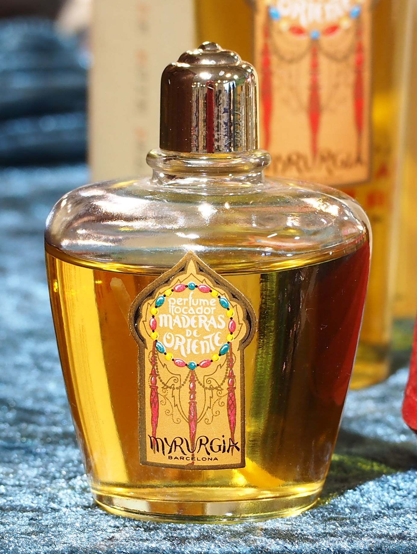 Old product that is not produced and not sold anymore for a very long time and the company does not exist anymore either.